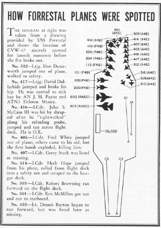 Deck plan of the U.S. aircraft carrier USS Forrestal (CVA-59) on 29 July 1967 in the Gulf of Tonking during the Vietnam war, when an accidentially launched rocket led to a catastrophe that killed 134, and injured 62. 21 aircraft of Attack Carrier Air Wing 17 (CVW-17) (tail code "AA") were destroyed. It was published in the Naval Aviation News, October 1967.